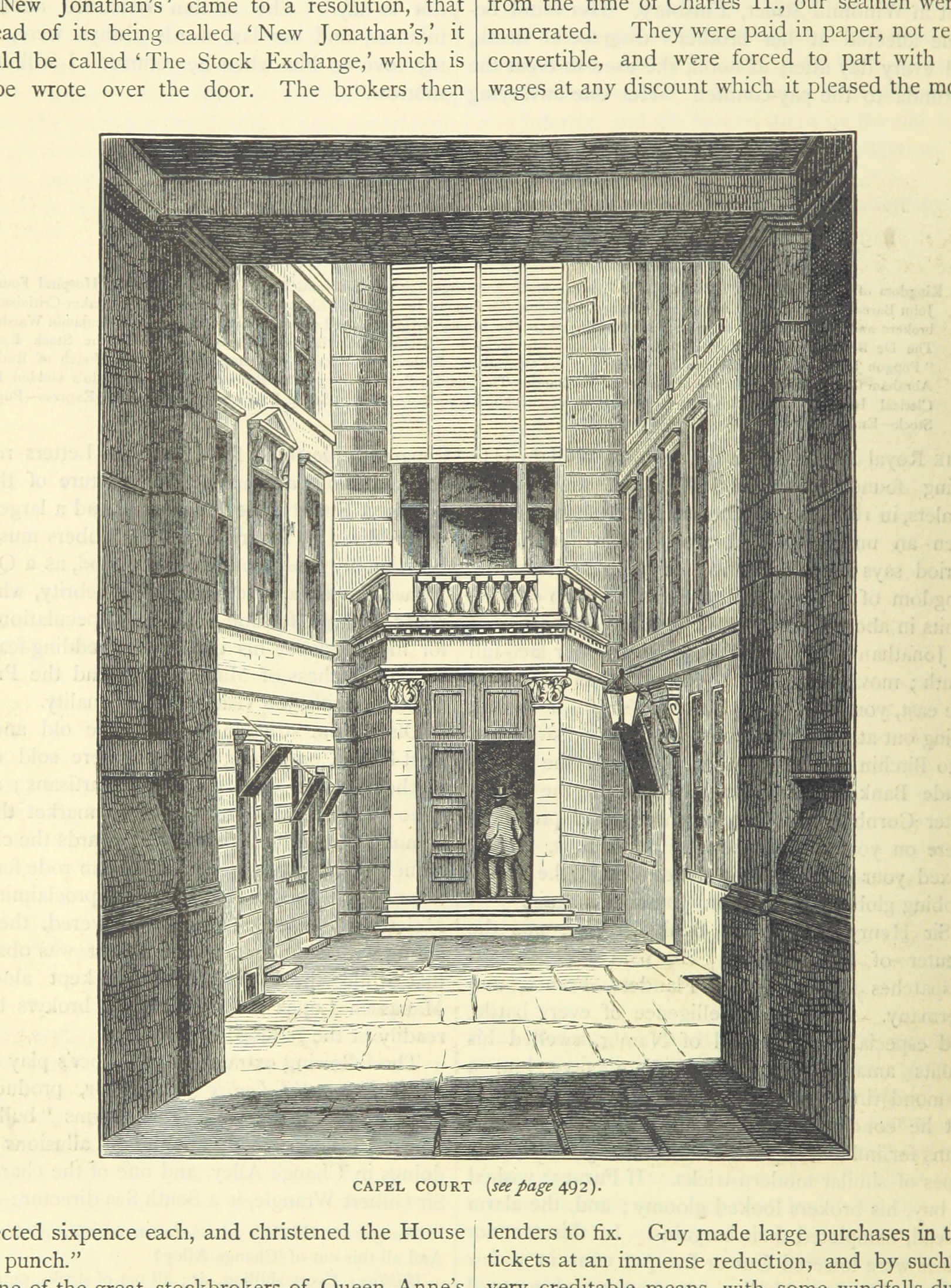 Entrance to the London Stock Exchange in Capel Court, City of London, looking west from Bartholomew Lane